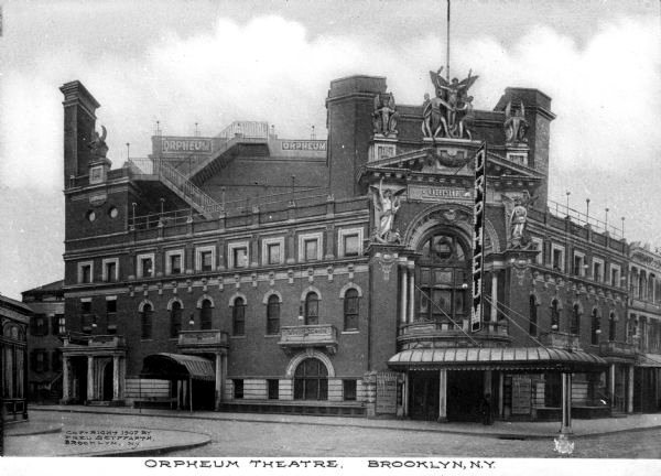 The Orpheum Theatre, Brooklyn, NYC by Fred Sayfarth